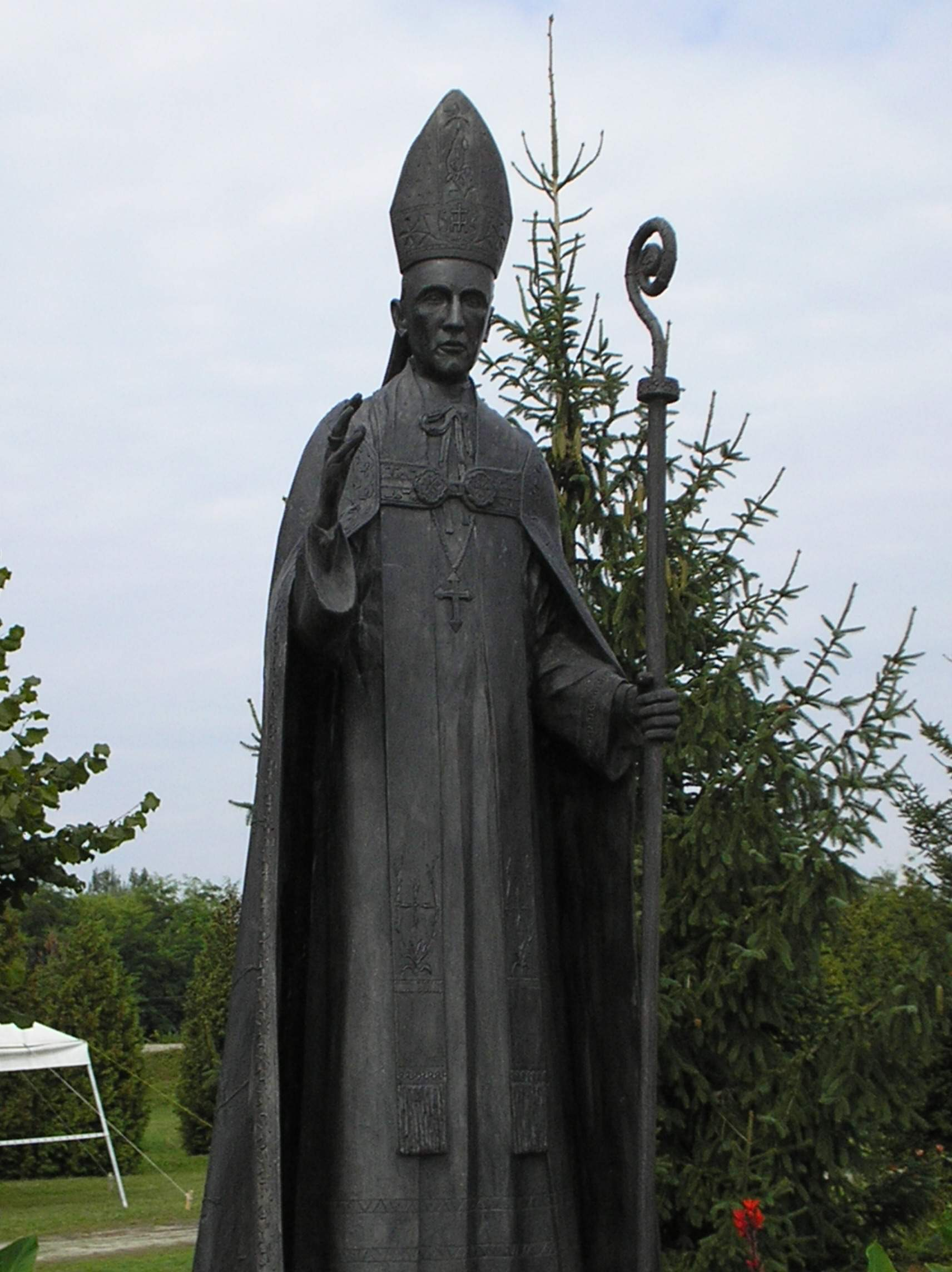 The statue of Blessed Alojzije Stepinac in Ludbreg, Croatia